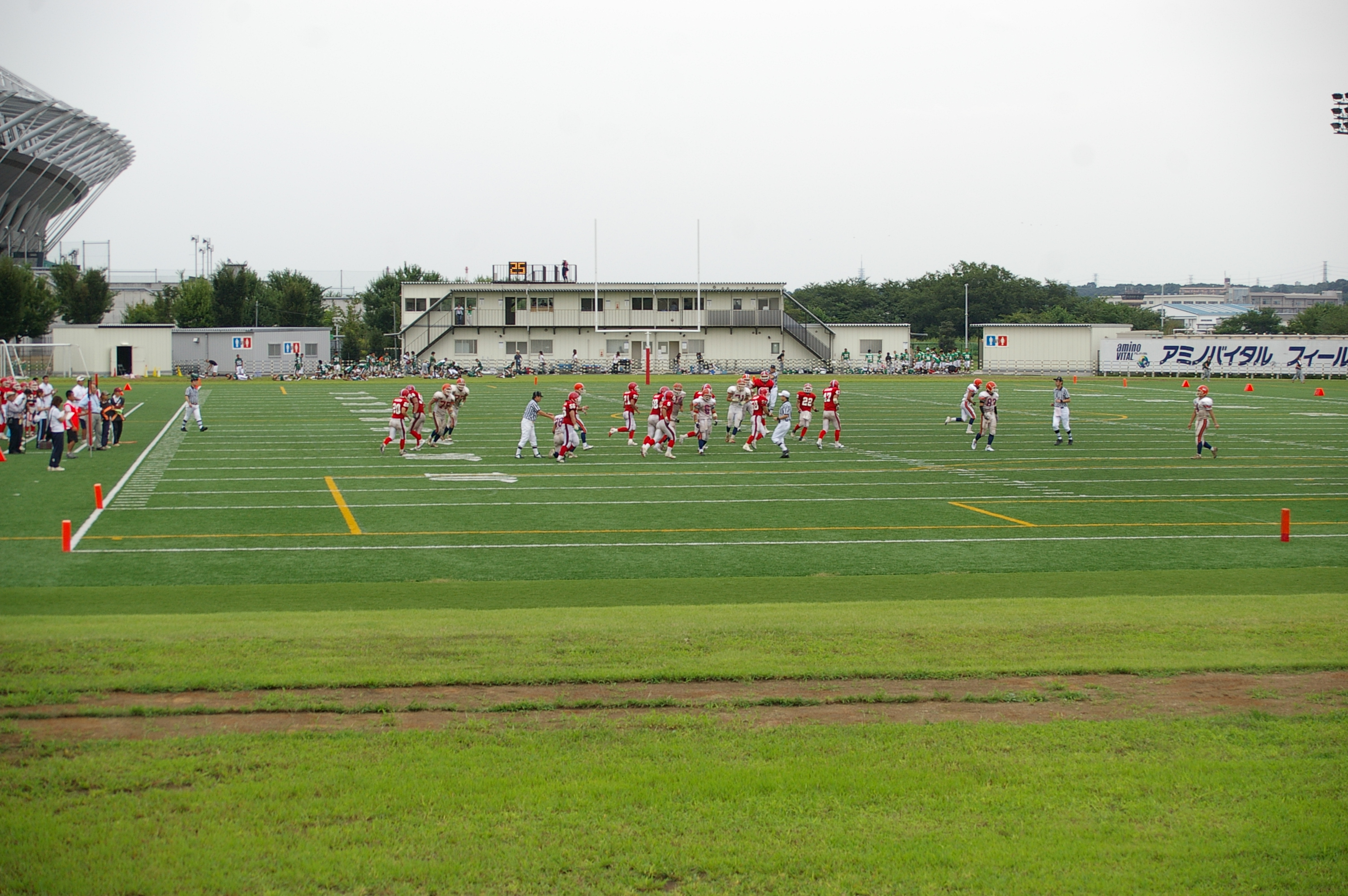 AminovitalField. This is Ajinomoto stadium's sub ground. Chofu City,Tokyo metro,Japan